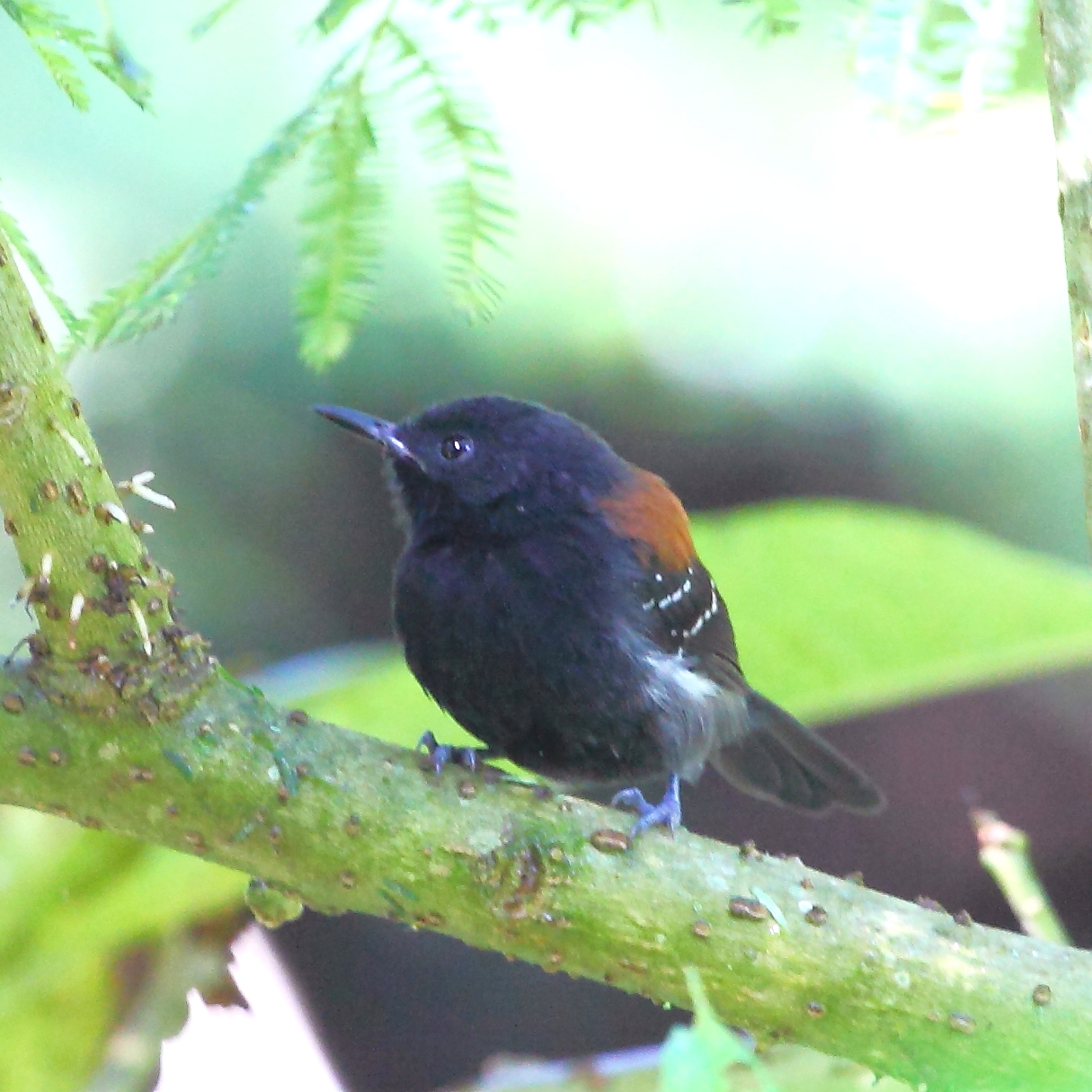 Black-hooded antwren (male) at Angra dos Reis - RJ - Brazil